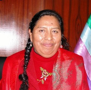 Congresswoman Maria Sumire in her office.